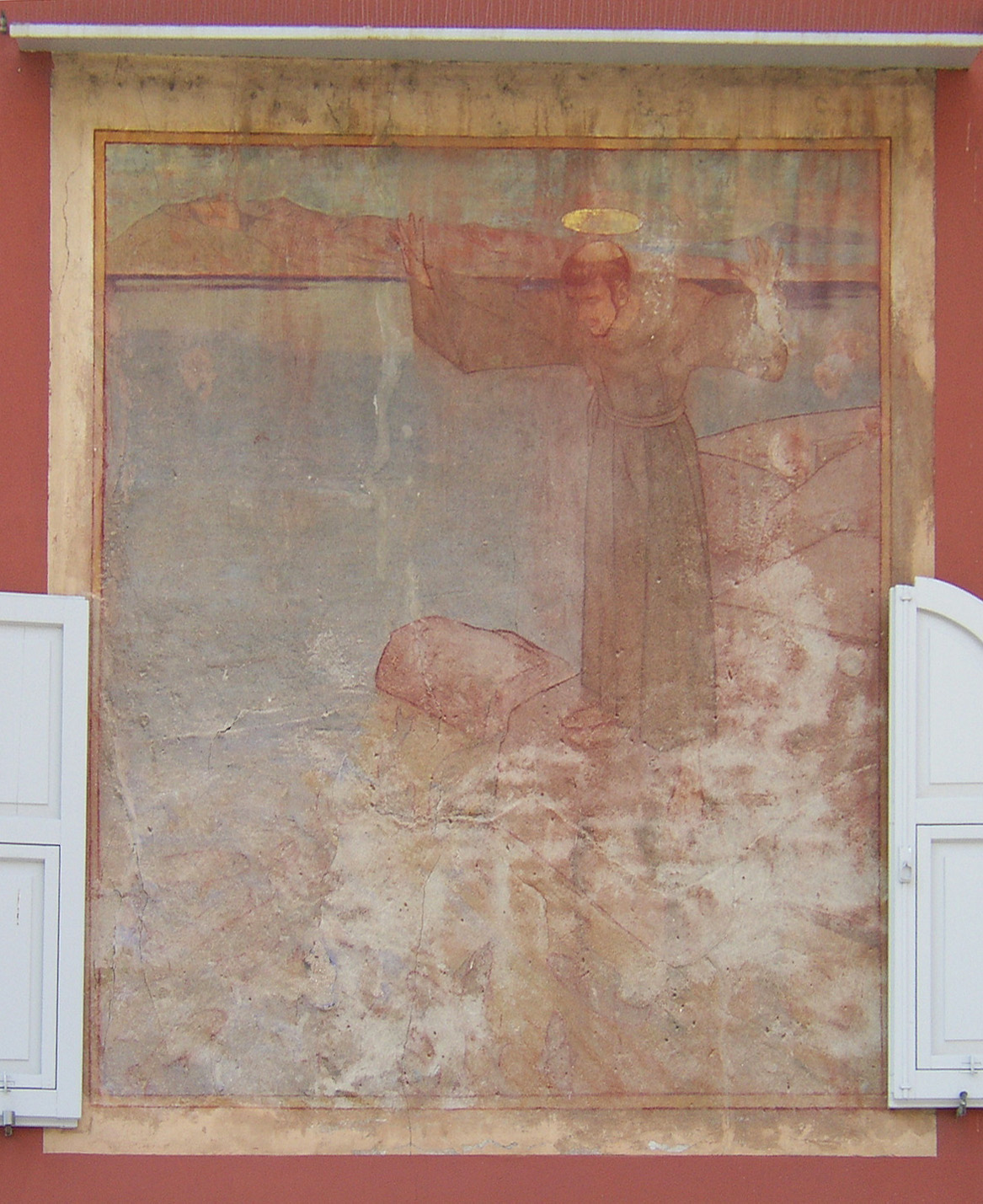 Mural painting of Hans Lietzmann Der heilige Antonio spricht mit den Fischen on the cladding of "Casa Beust" in Torbole at Lake Garda